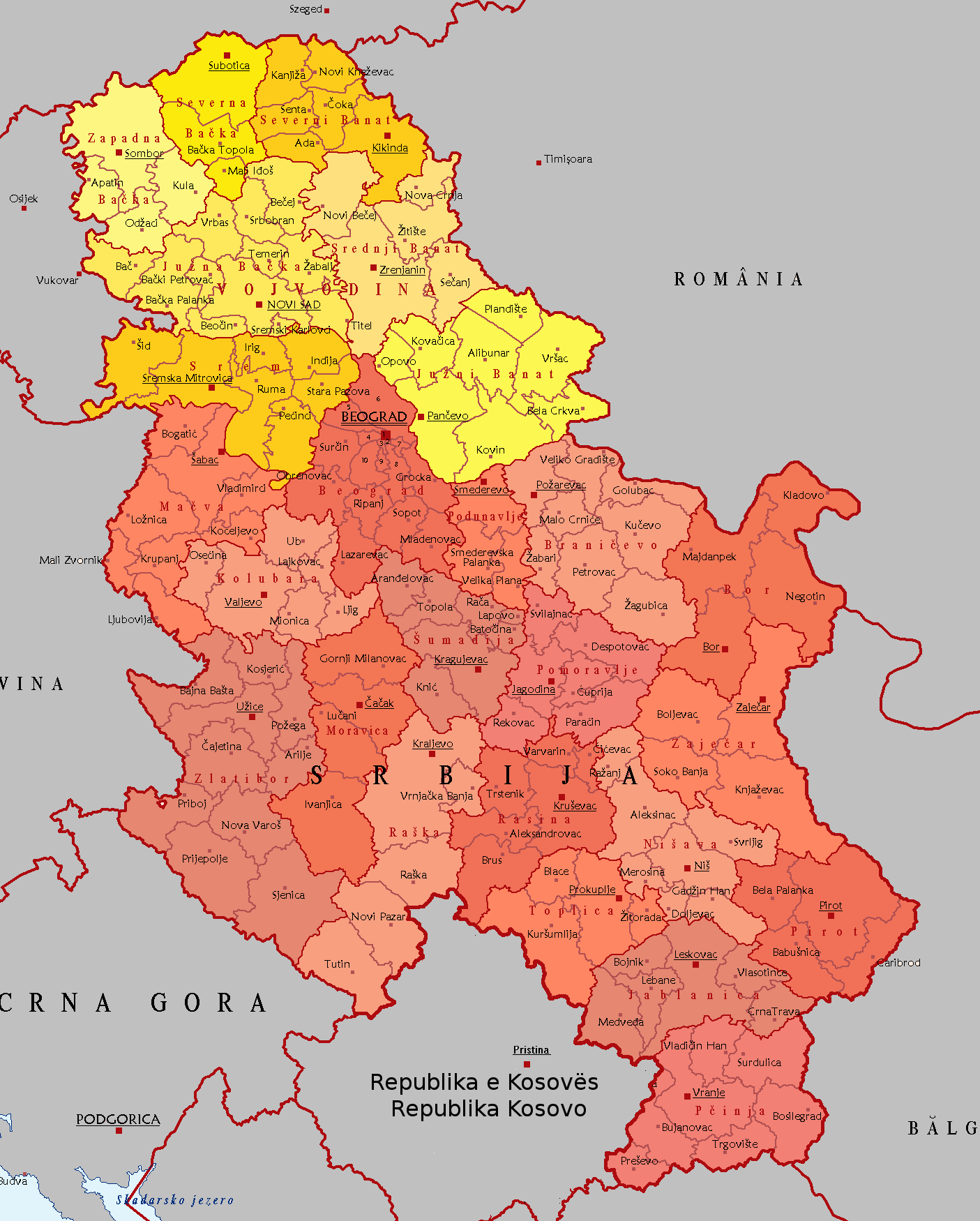 Administrative divisions of Serbia as of late February 2008